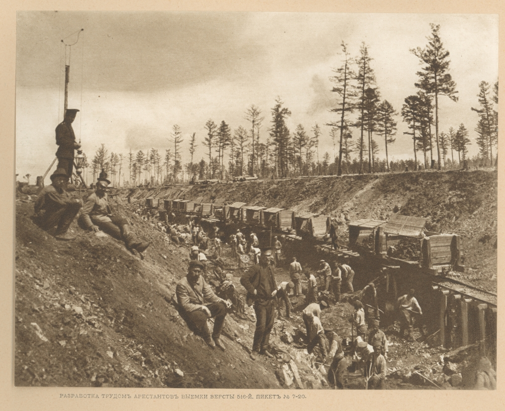 Russian prisoners at work at the western building section (at the 516th versta) of the Amur Railway early 20th century